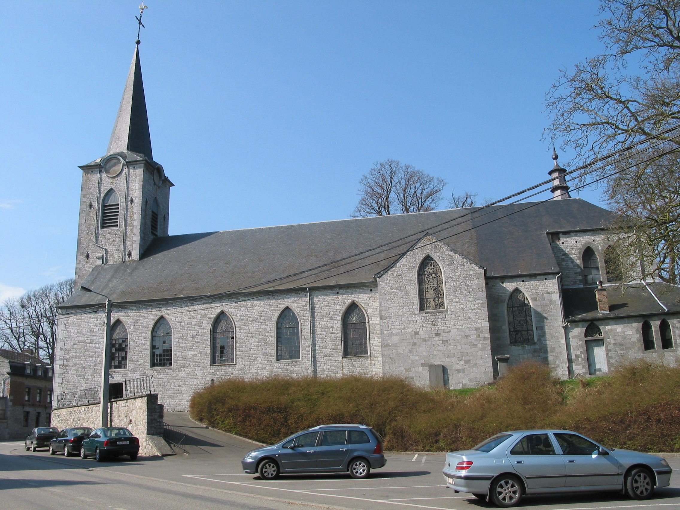 Bioul (Belgium), the St. Bartholomew church. Walon: Biou (Bèljike), l'èglîje Sint-Biètrumé.